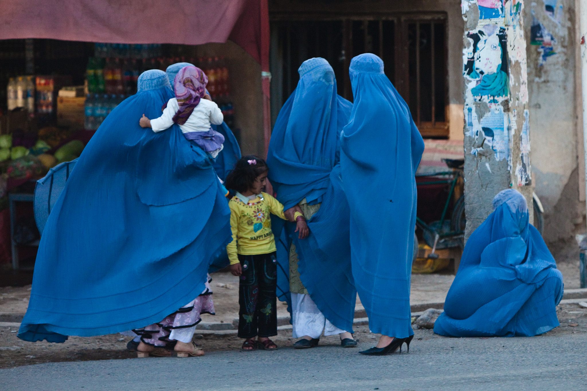 Herat